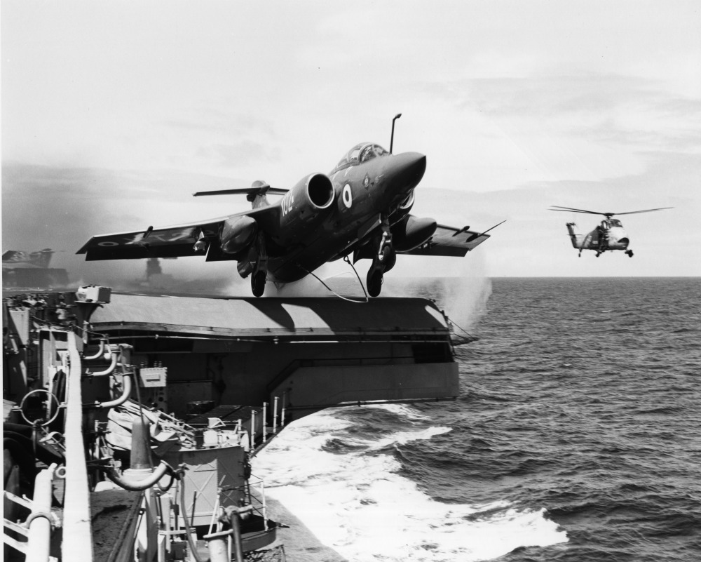 PictionID: 42252211 - Title:Blackburn Buccaneer Blcackburn Buccaneer *Catalog: � Filename::15_003240.tif - ---- Image from the Charles Daniels Photo Collection album "English Aircraft"----PLEASE TAG this image with any information you know about it, so that we can permanently store this data with the original image file in our Digital Asset Management System.----SOURCE INSTITUTION: San Diego Air and Space Museum Archive